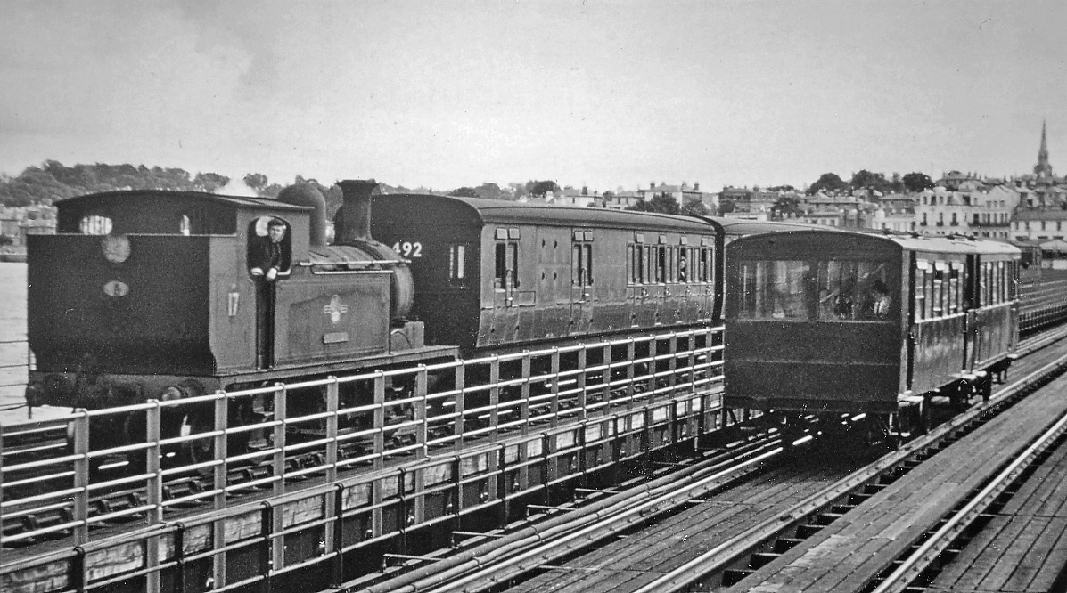 Steam train and electric tramcar on Ryde Pier. View southward, towards Ryde Esplanade: ex-Isle of Wight Central and IoW Railways lines from Cowes/Newport and Ventno, tramway from Esplanade, to Ryde Pier Head. On the left is the 13.40 from Ventnor with ex-LSW Adams class O2 0-4-4T No. W17 'Seaview' (built as No. 208 in 11/1891, transferred to IoW as No. W17 in 5/30, withdrawn 12/66). On the right is petrol-driven tramcar returning to the Esplanade. The steam line was electrified in 1967, with a service, to Shanklin only, provided by trains from the London Underground.